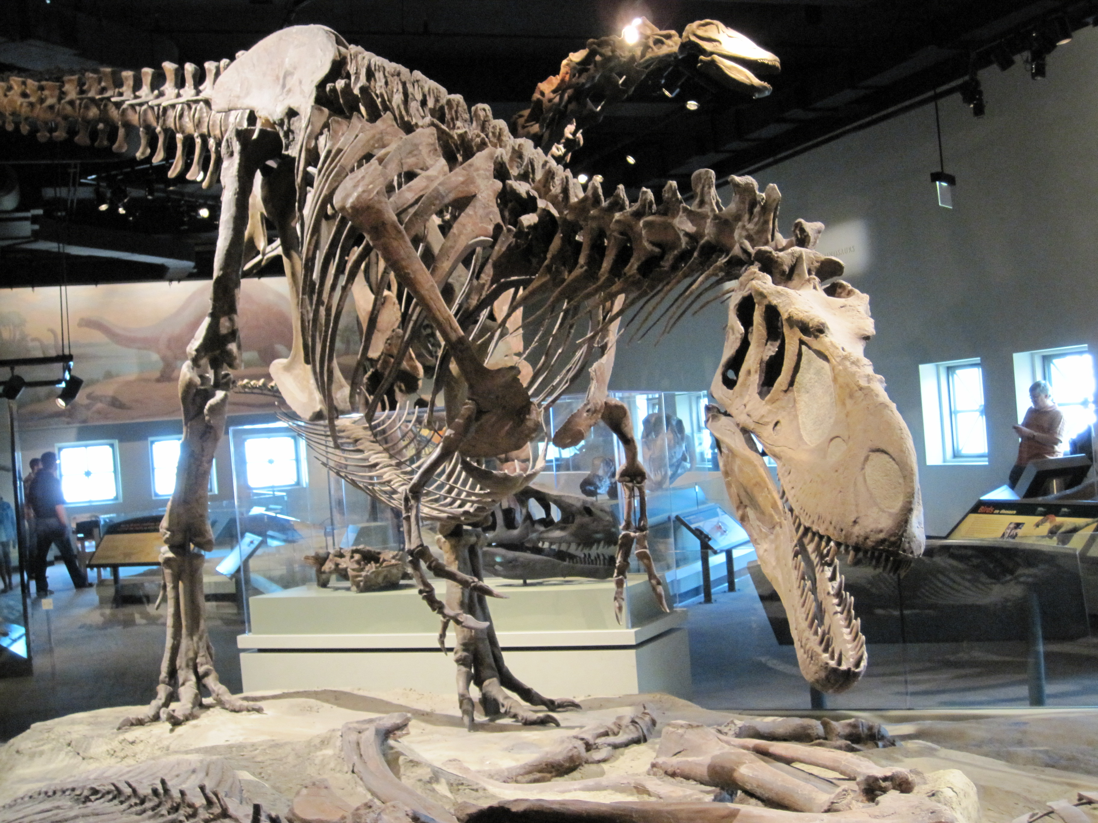 Skeleton of the tyrannosaur Daspletosaurus (specimen FMNH PR308) at the Field Museum in Chicago.